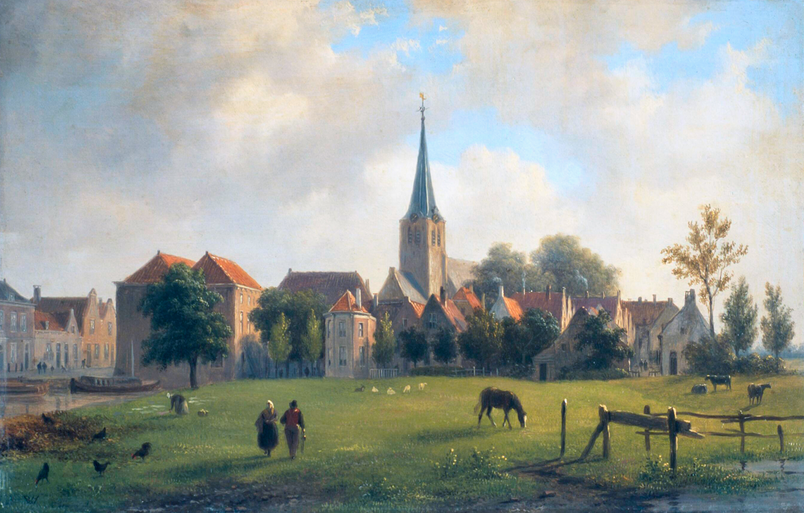 View of Rijswijk oil on panel 19 x 29 cm signed b.l.: BvH 1805 - 1880